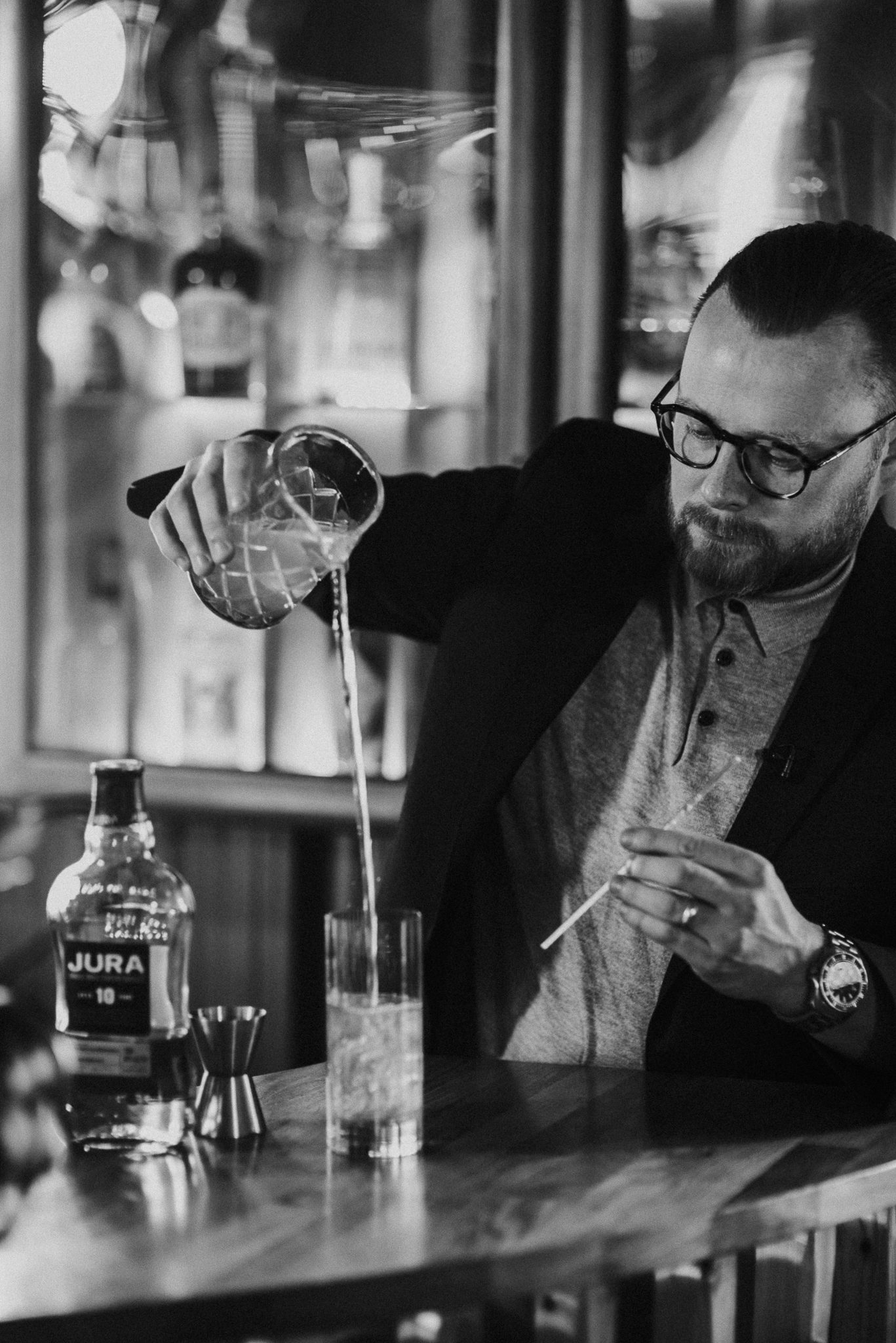 Drinks writer Joel Harrison making a cocktail with single malt whisky